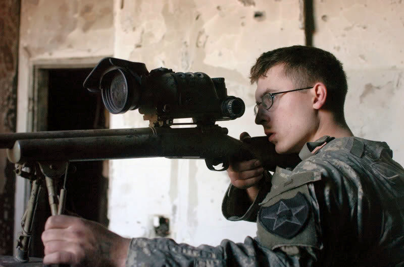 Spc. Christopher Rhoades, a native of Copperas Cove, Texas, with 1st battalion 23 Infantry Regiment, 3rd Brigade Stryker Combat Team, 2nd Infantry Division, has an anti-Iraq force in his sight and prepares for a shot on Hiafa street Jan. 24. Photo by CPL Shea Butler.